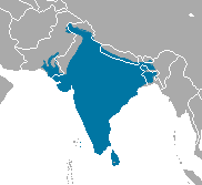 Manis crassicaudata (Indian pangolin) range